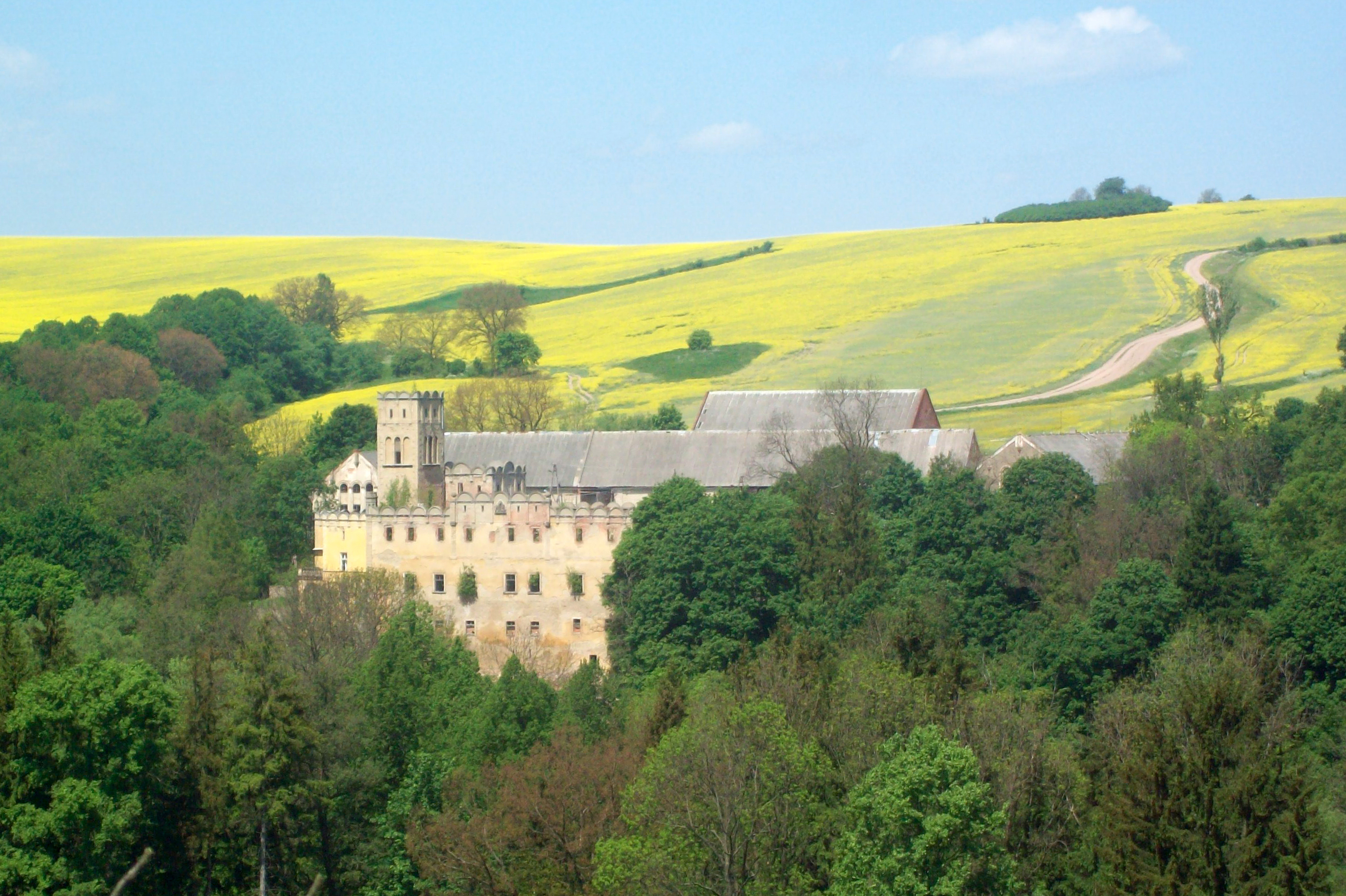 Ratno Dolne Palce